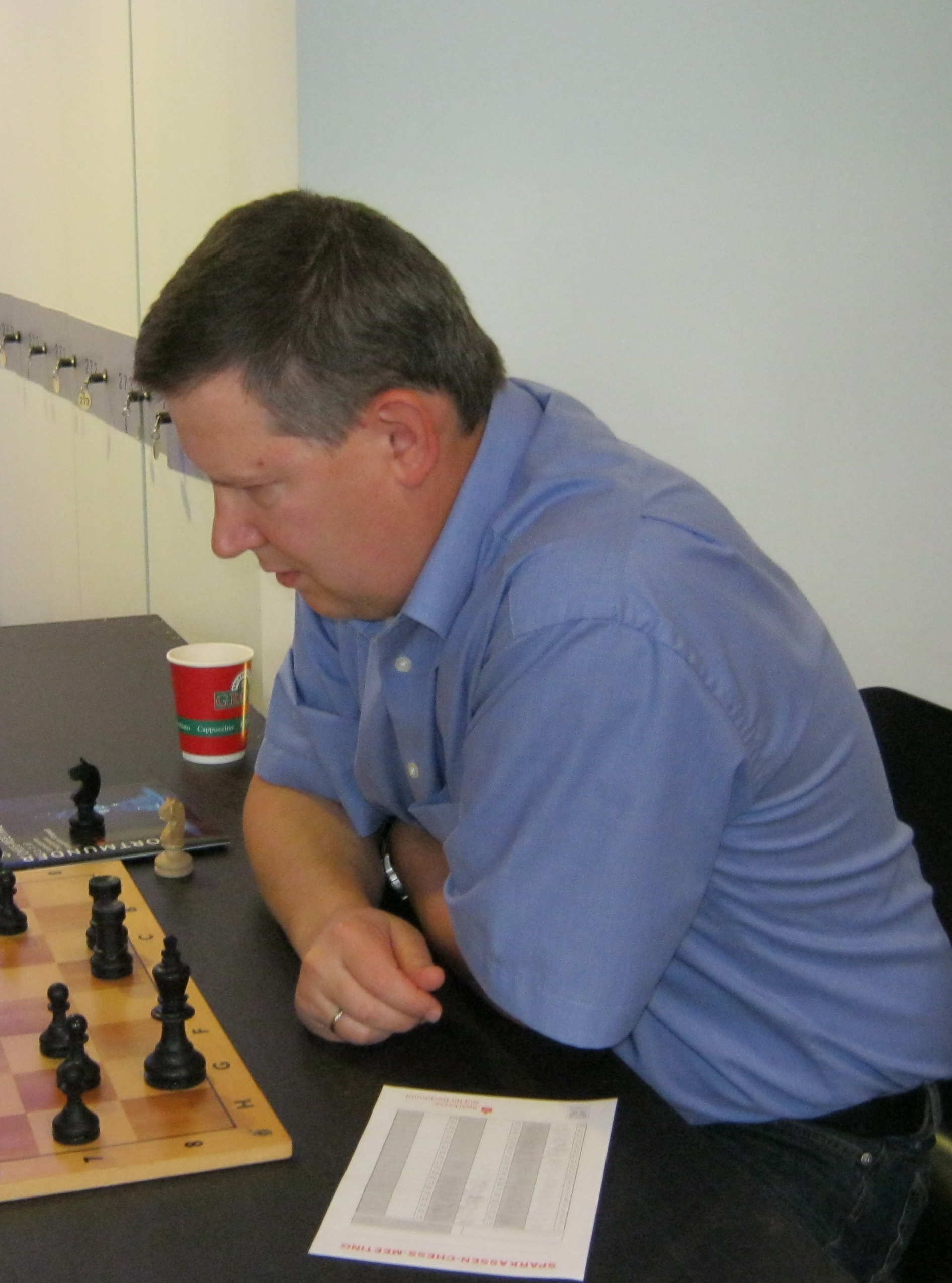 Mihail Saltaev, chess grandmaster from Uzbekistan